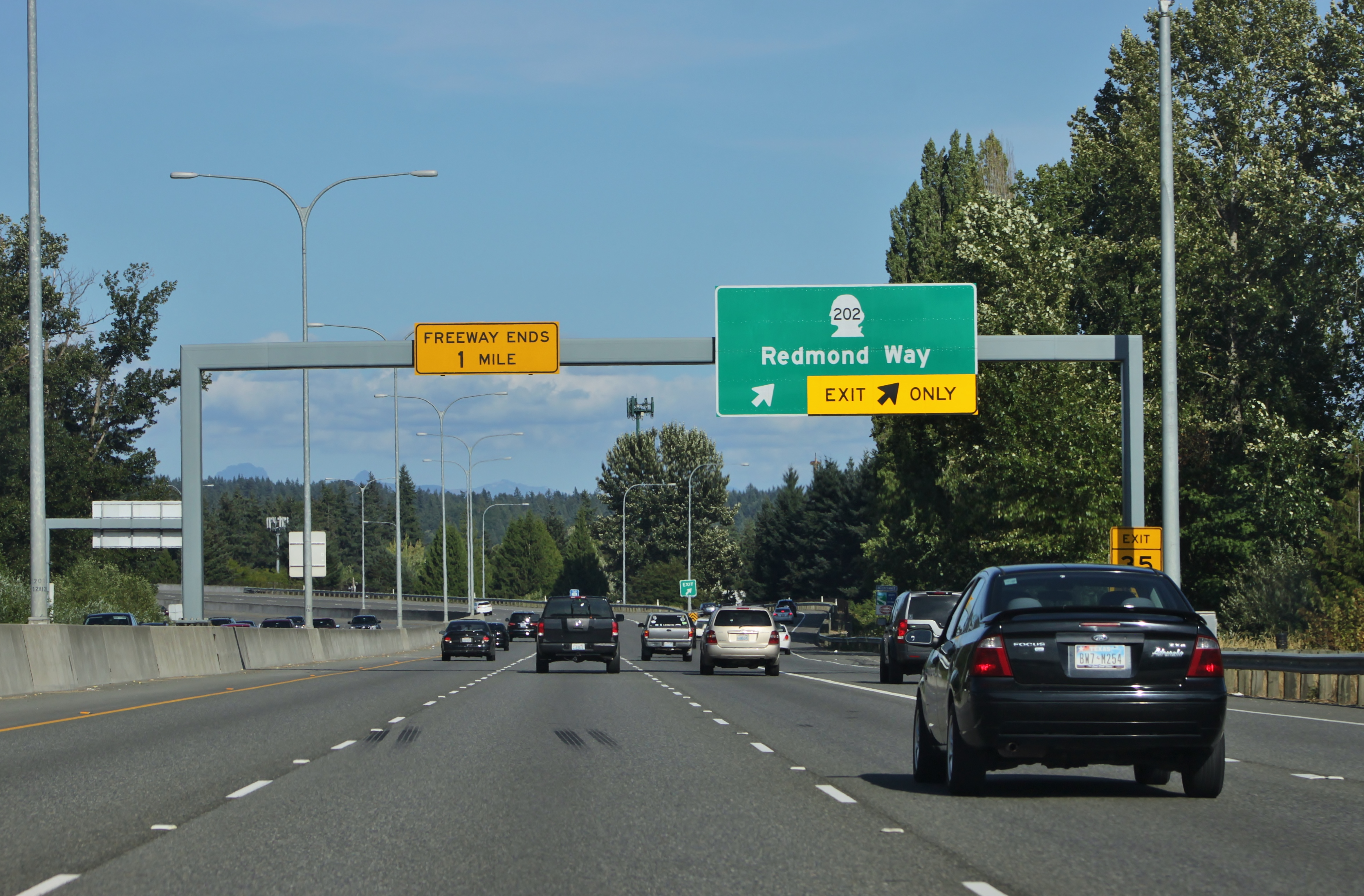 Washington State Route 520 eastbound approaching its terminus at Washington State Route 202 in Redmond.